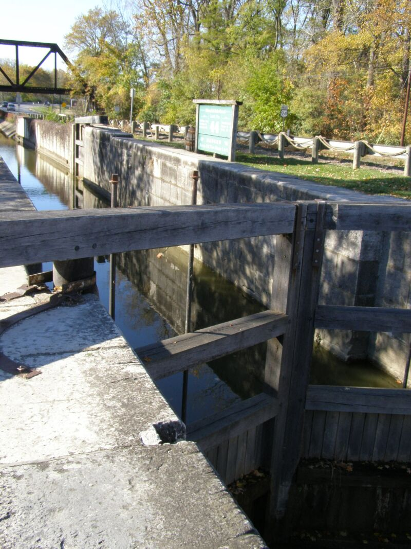 Lock #44 in the Providence Historical Site, Providence Metropark, Toledo, Ohio